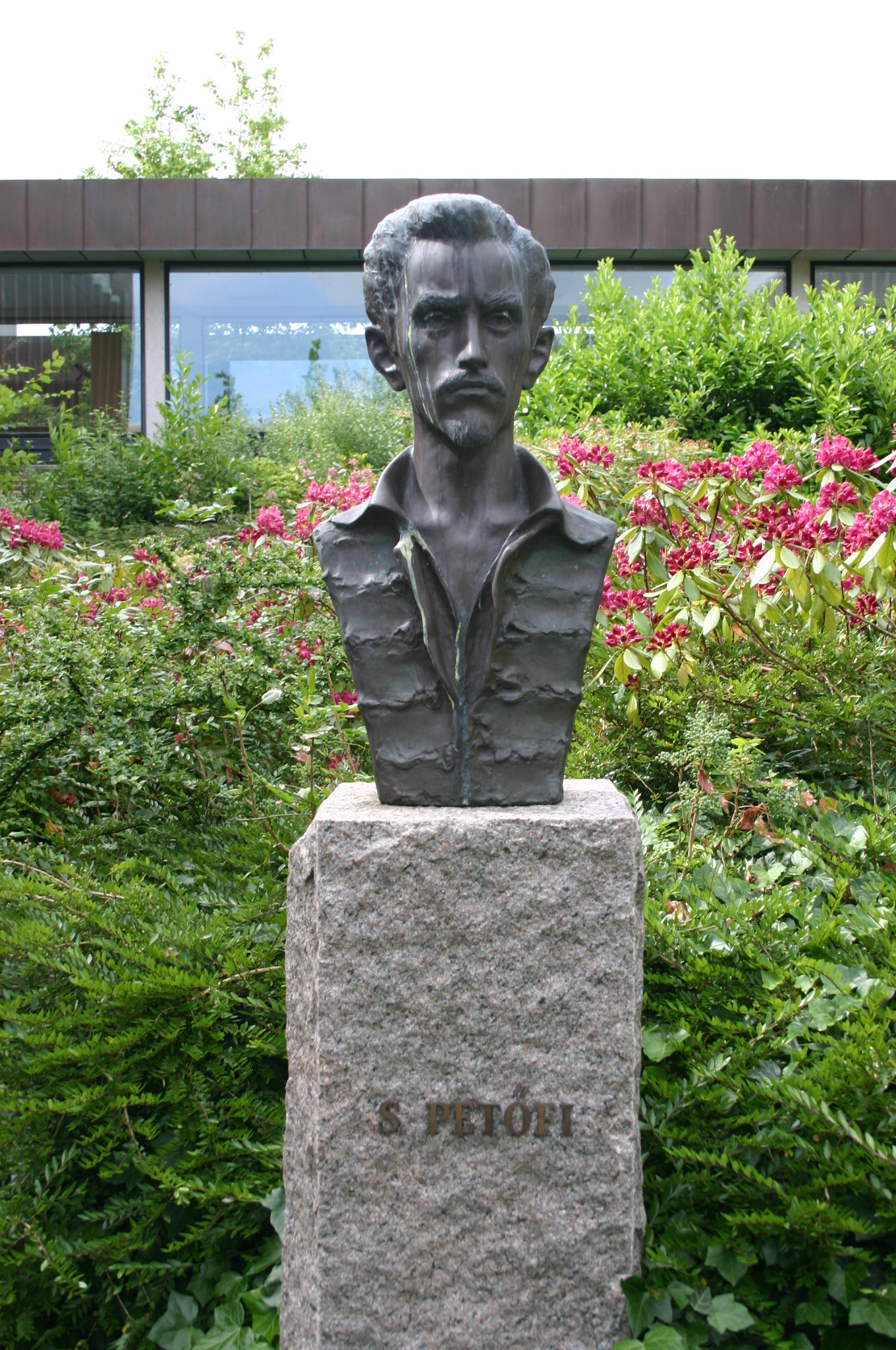 Bust of the Hungarian poet and national hero Sandor Petöfi placed at the headquarters of the Regional Council of Mid Jutland, Viborg, Denmark. The bust is af gift to the former Viborg County from Kecskemét County in Hungary.